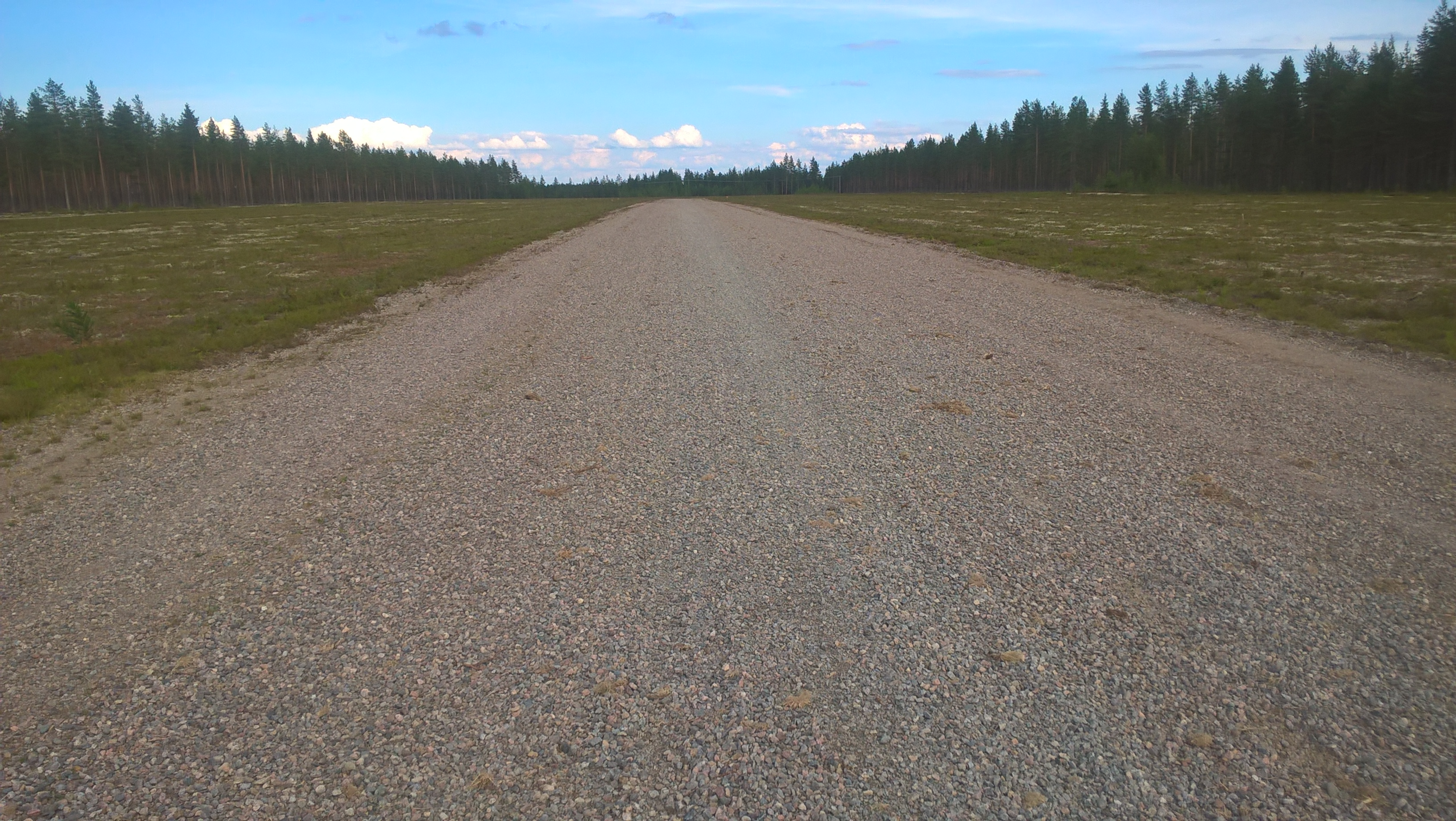 The runway 09/27 of the small airfield located in Vaala, Finland.